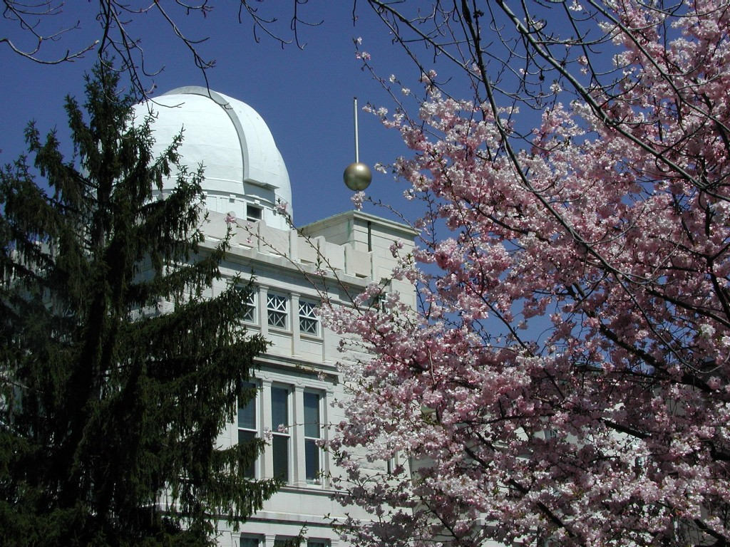 US Naval Observatory (Washington, District of Columbia)